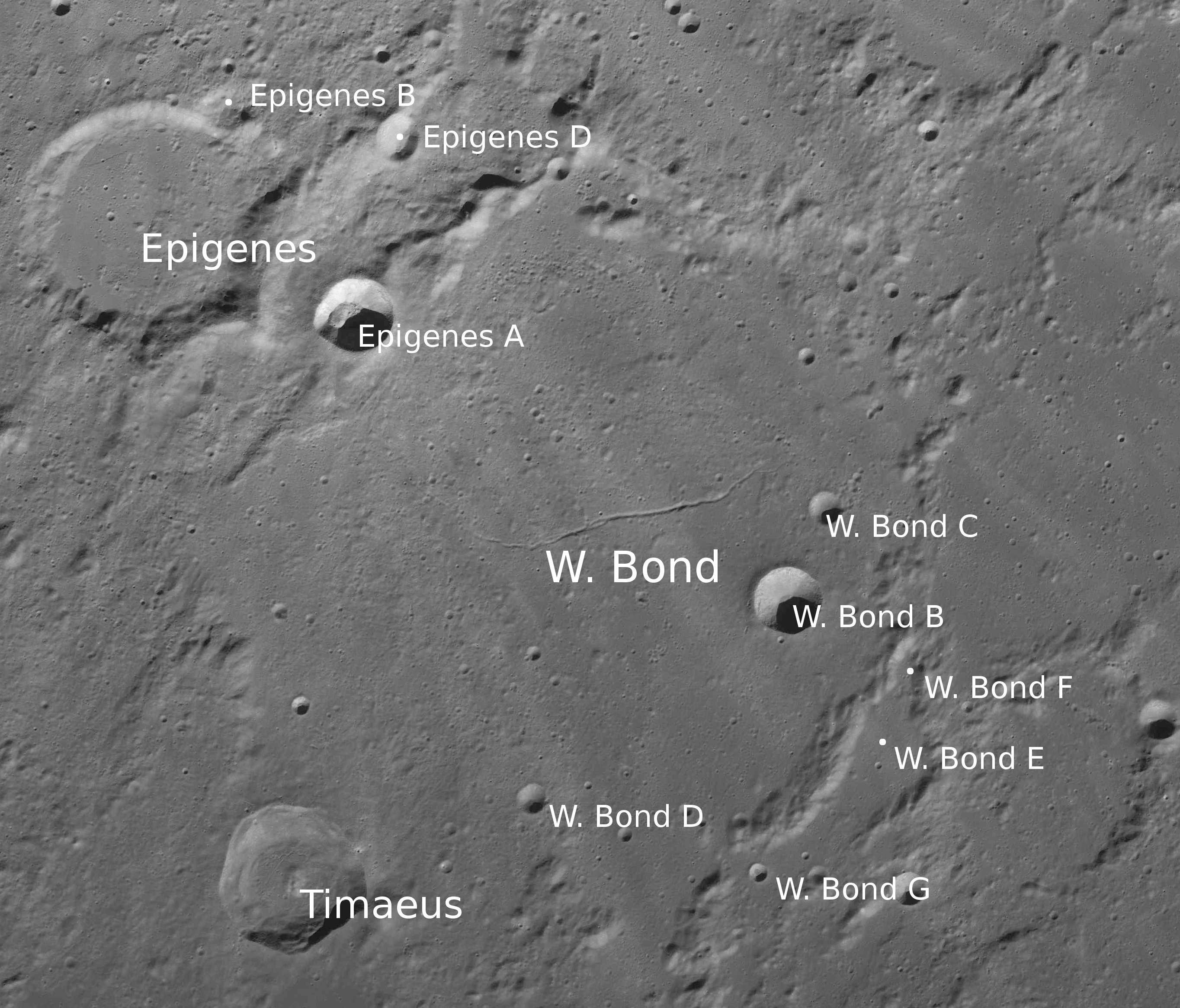 Moon craters W. Bond, Epigenes and Timaeus with satellite features (north at top; detail of LRO - WAC north pole mosaic)